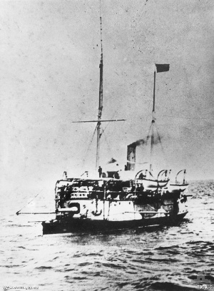 AWM caption : "MORETON BAY, QLD. 1903. VIEW FROM FINE 0FF THE PORT BOW OF THE GUNBOAT GAYUNDAH. SHE IS TAKING PART IN EARLY EXPERIMENTS IN SHIP TO SHORE WIRELESS TRIALS. A BAMBOO EXTENSION IS FITTED TO HER FOREMAST FOR THE PURPOSES OF THE TRIALS. HER FORWARD 8 INCH GUN ON ITS LIMITED TRAVERSE MOUNTING IS EVIDENT."